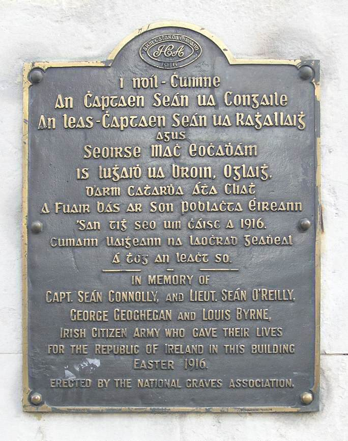 plaque in commemoration of Irish Citizen Army